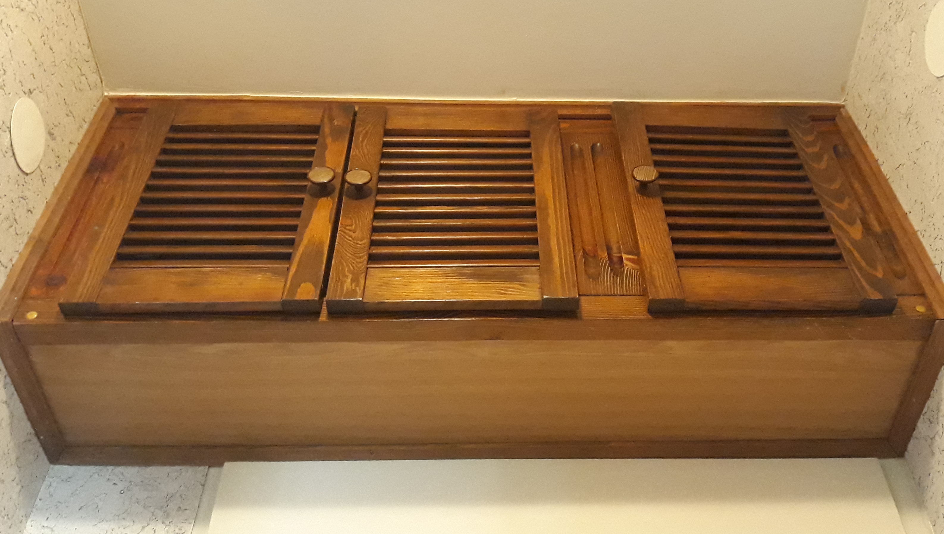 Polish overhead storage called 'pawlacz'